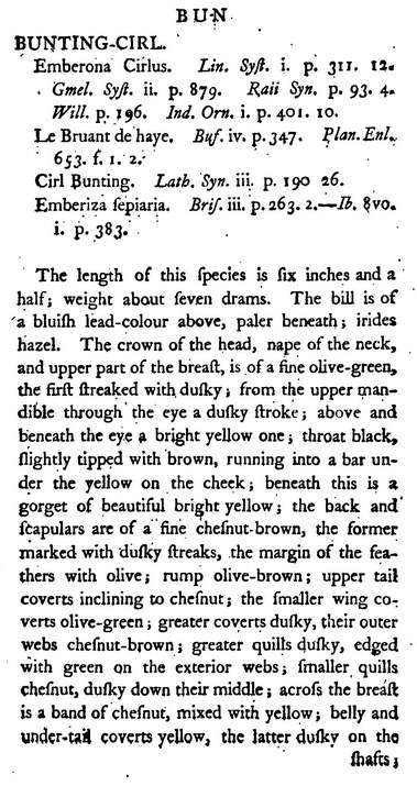 Start of the article on the Cirl Bunting, a bird discovered by Montagu, in his 1802 Ornithological Dictionary